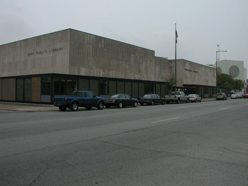 Downtown, main office, of the Gary Public Library; Indiana